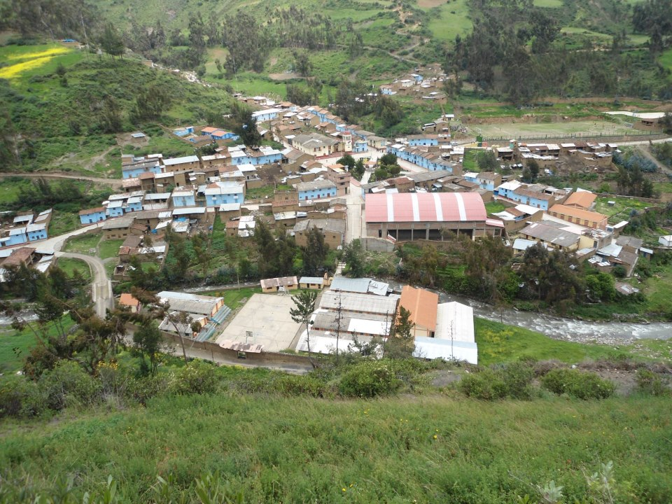 Vista la Merced